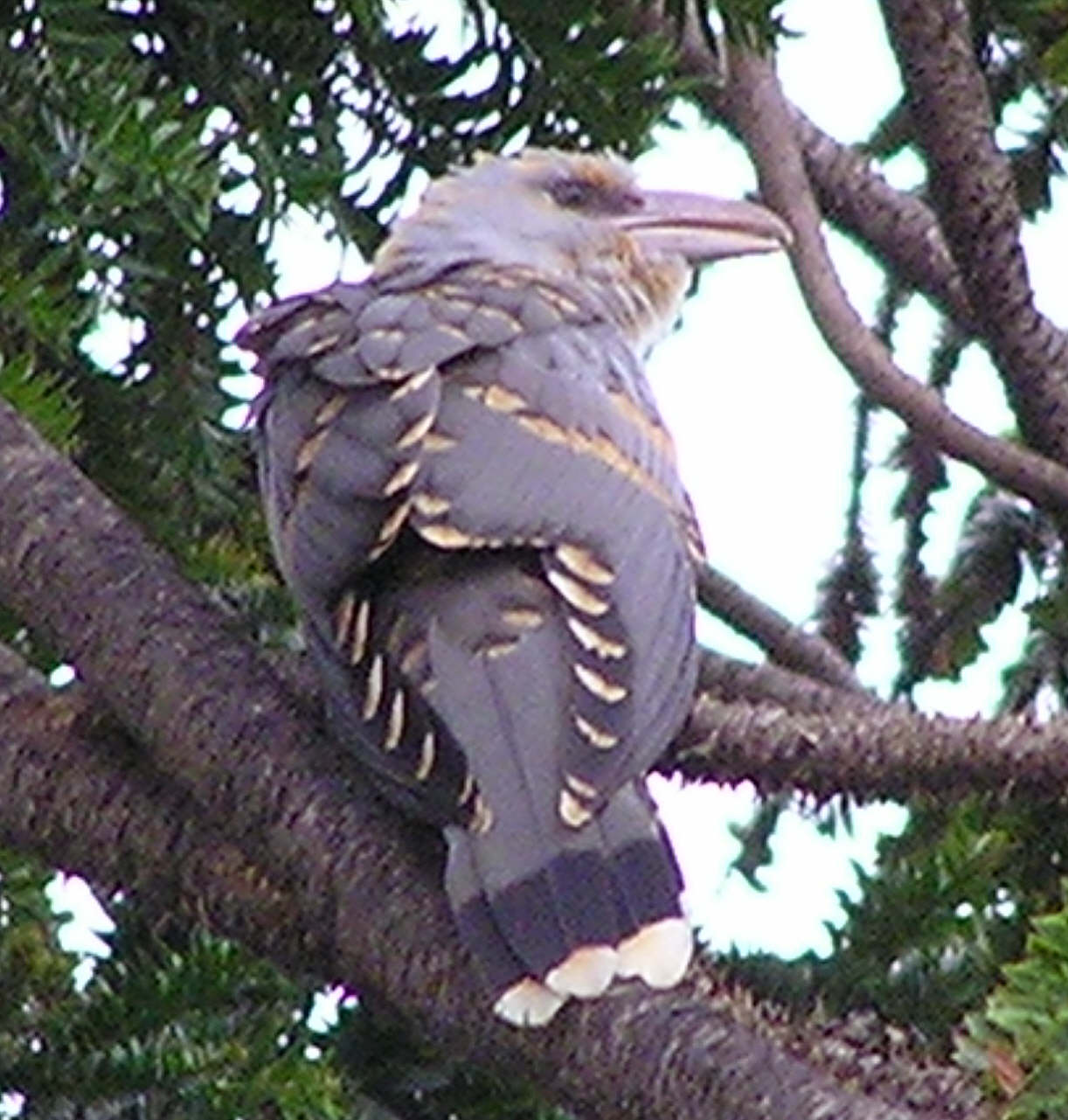 Juvenile Channel-billed Cuckoo (based on plumage)